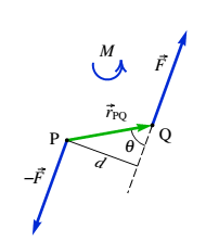 Binário